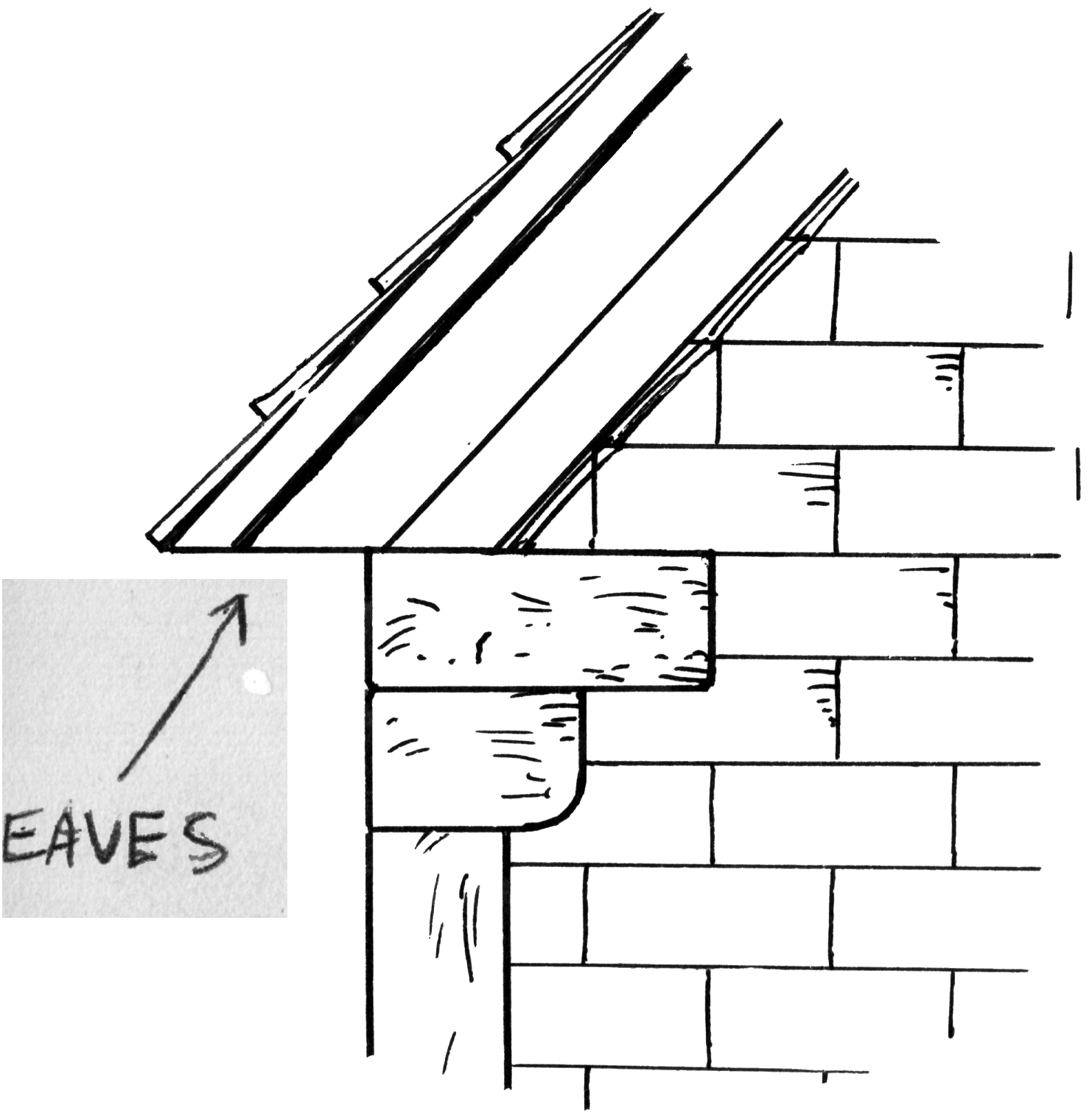 Line art drawing of Eaves